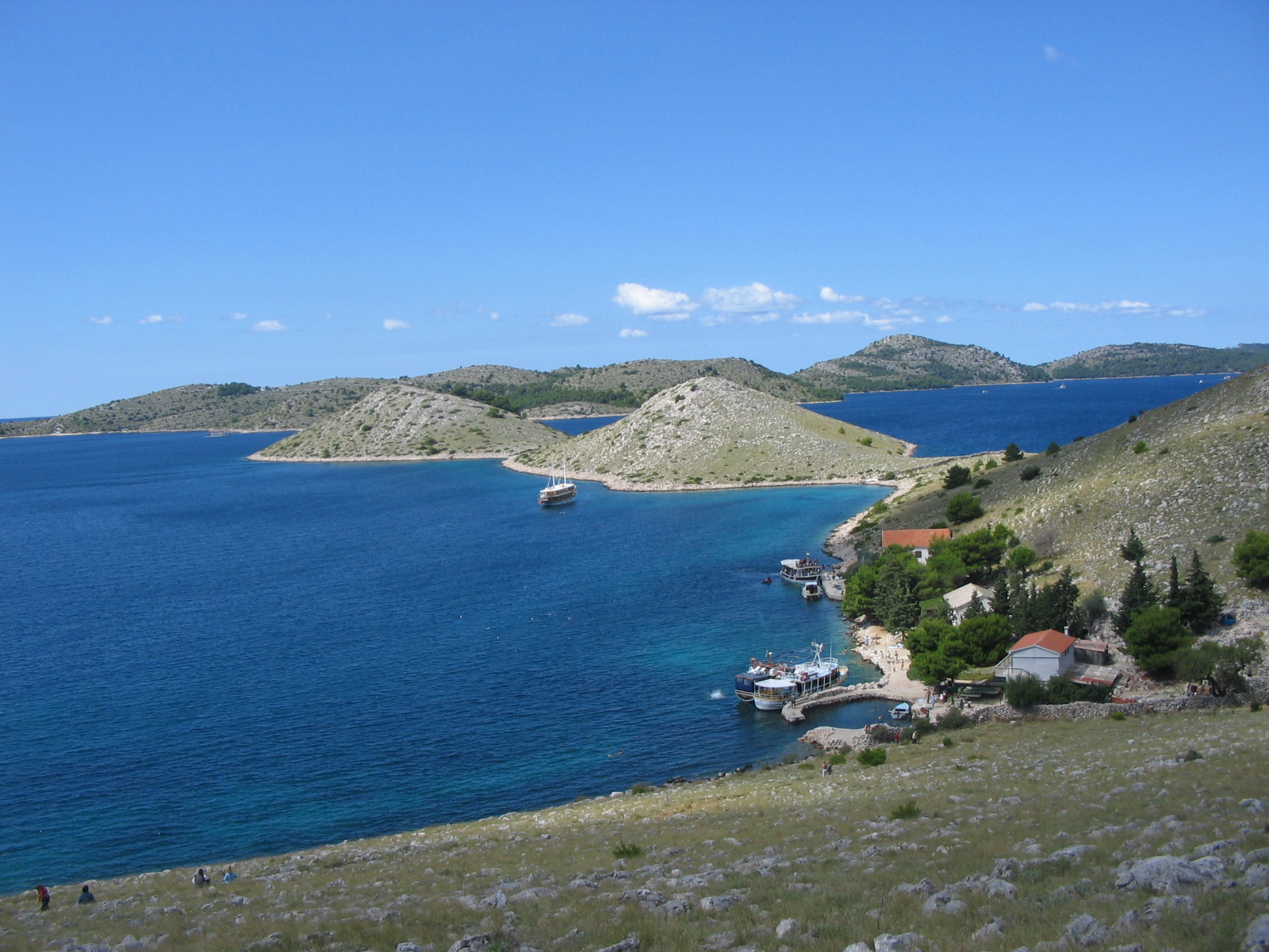 Katina island, Kornati.